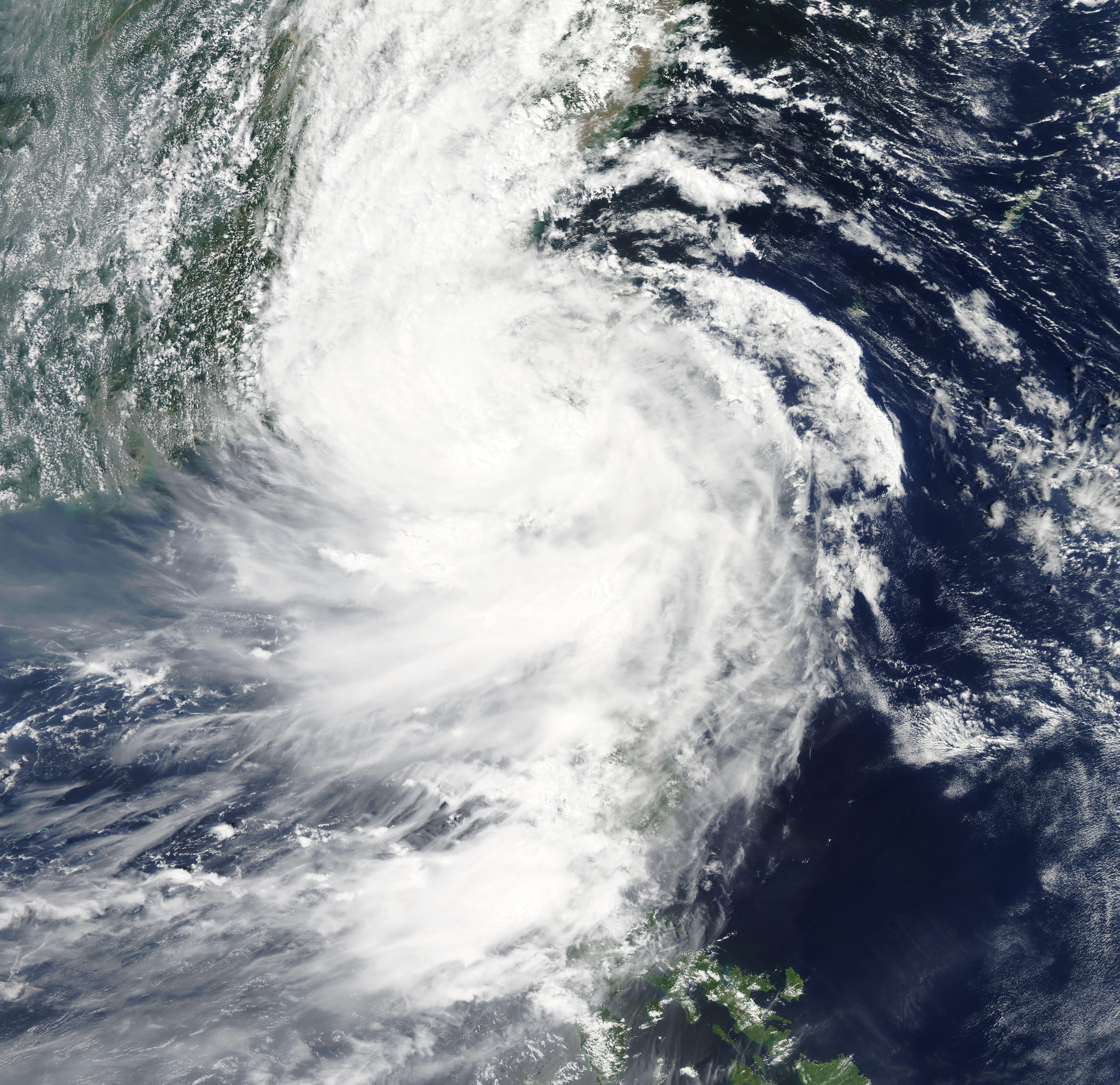 Nanmadol accelerates towards the north-west and entered the Taiwan Strait, with fragmented convective bands wrapped into an adequately defined center. Landfall weakened the system rapidly prompting the JTWC to downgrade Nanmadol to a tropical storm with winds of under 50 knots (93 km/h; 58 mph)